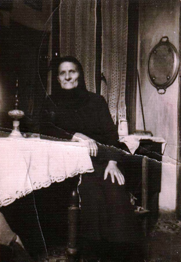 Elena Atanasova in Thessaloniki